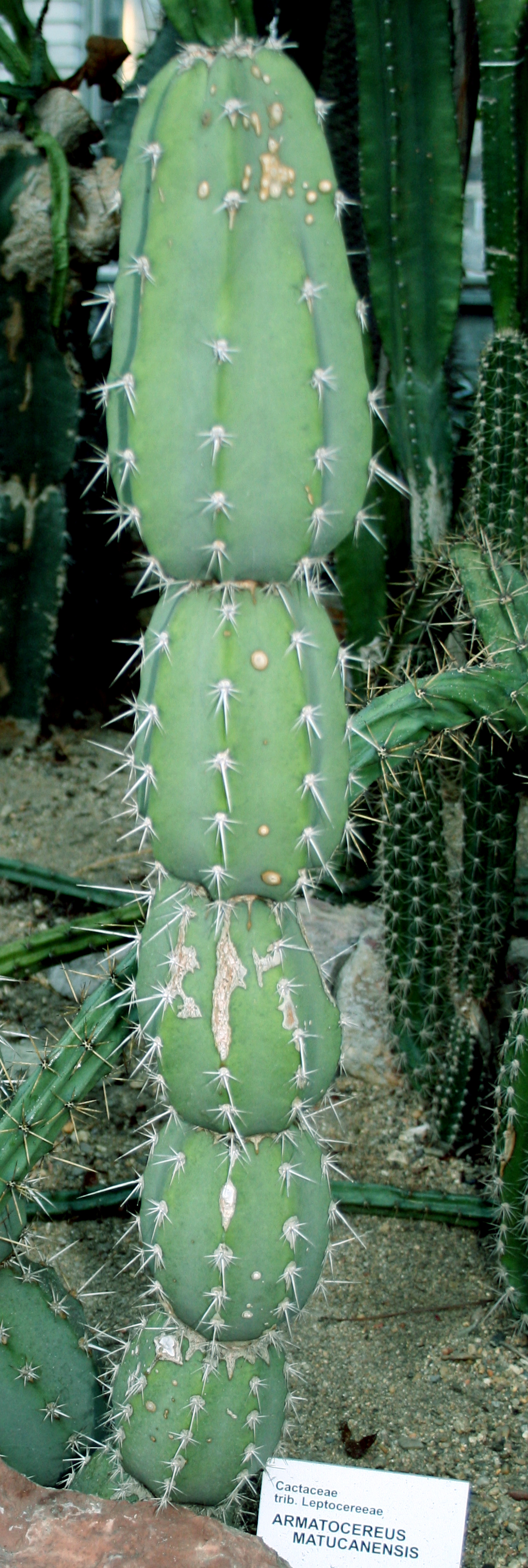 Cactus Armatocereus matucanensis from the Botanical Gardens of Charles University, Prague